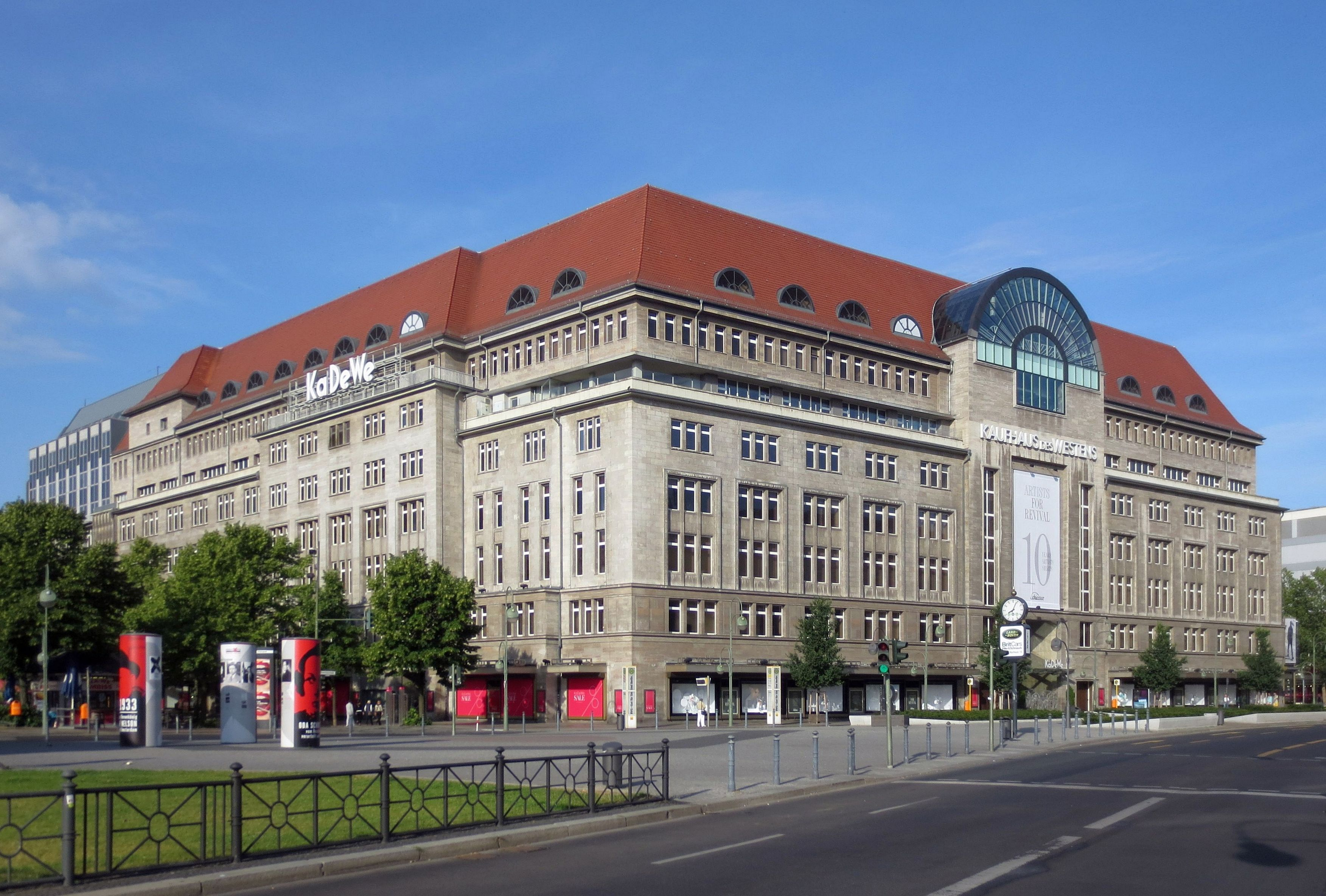 The Kaufhaus des Westens (KaDeWe) at Tauentzienstraße No. 21-24, corner of Wittenbergplatz (on the left), in Berlin-Schöneberg. The building was constructed from 1905 to 1907 to a design by Emil Schaudt. Heavy destruction in WWII was followed by reconstruction between 1950 and 1956.